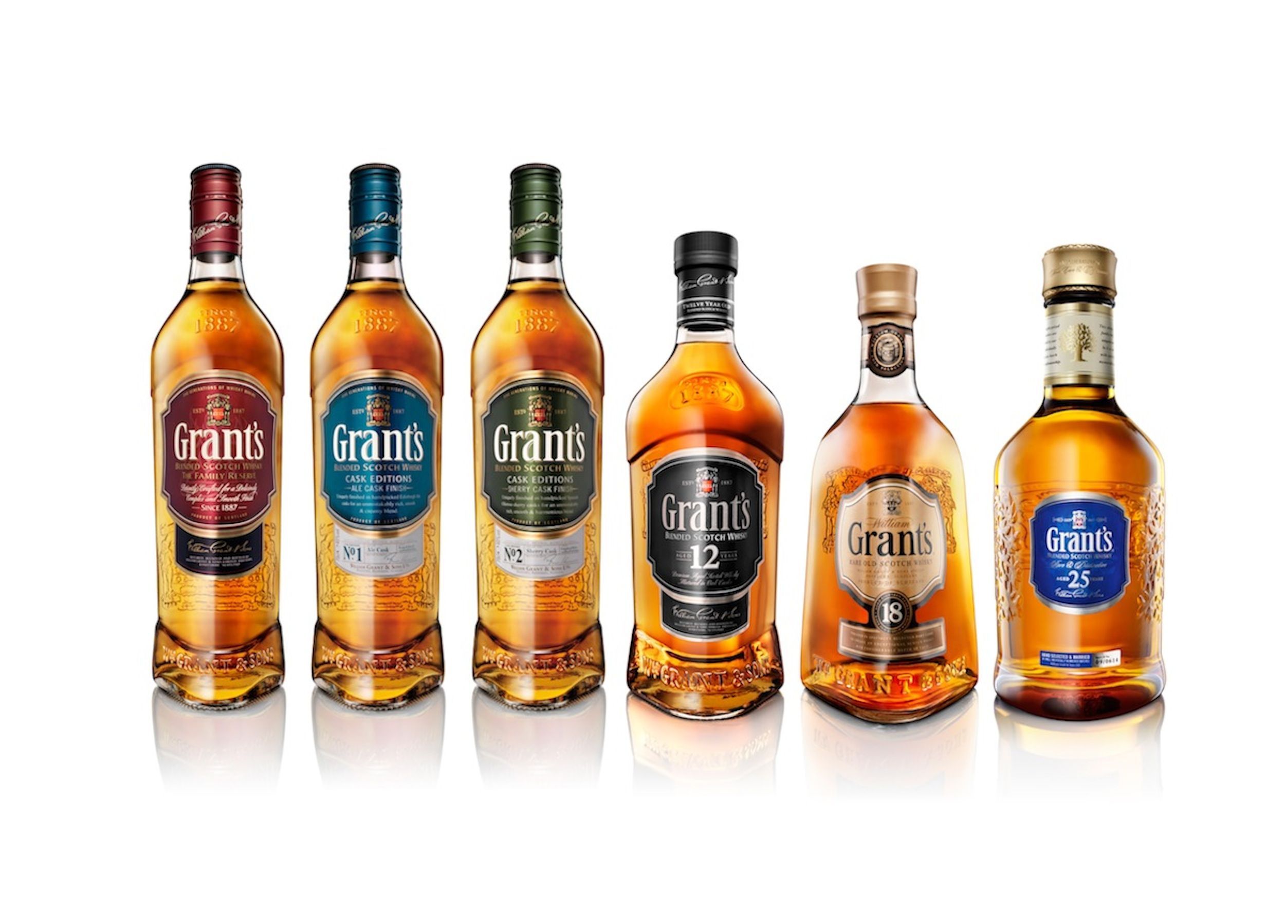 Family Reserve, Ale & Sherry Casks, 12, 18 & 25 Year Old.